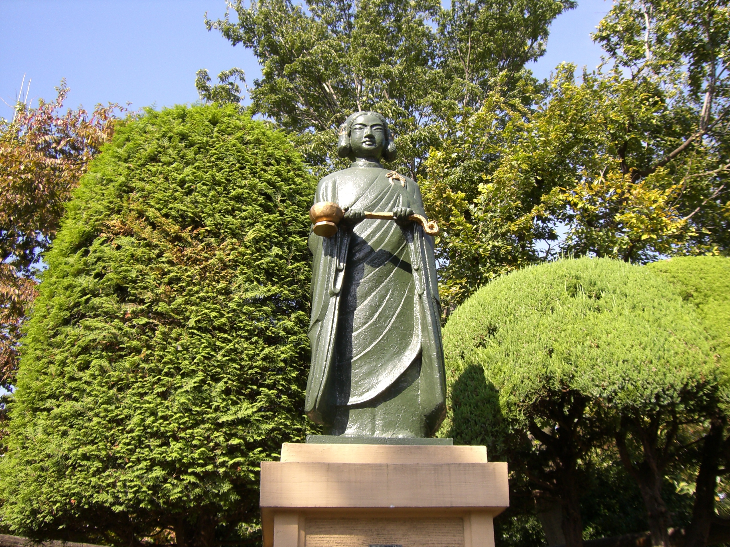 Araiyakushi-temple Prince Shotoku standing figure at : 2005-10-25 by & copyrightholder : Suisui